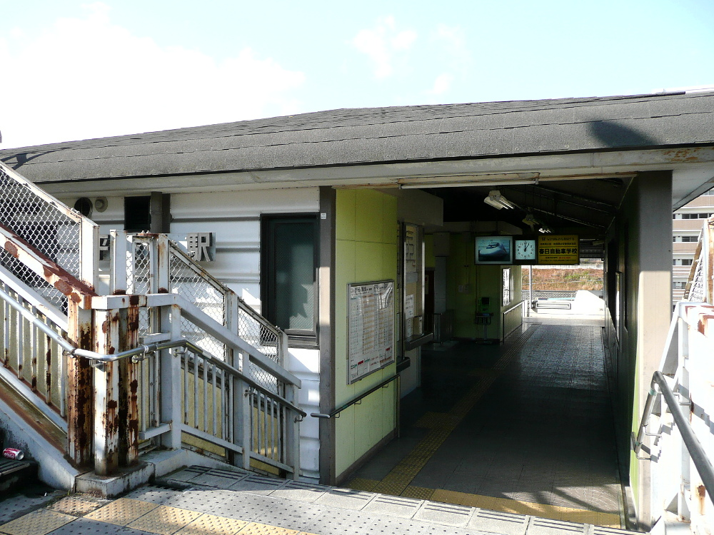 West Japan Railway, Kansai Main Line, Narayama Station east entrance. / 関西本線平城山駅東口